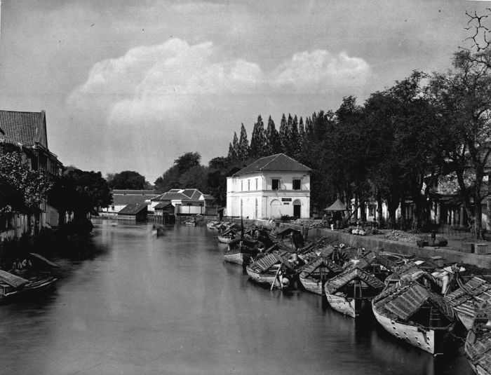 Loading and unloading proas moored at the 'Willemskade', Kali Mas